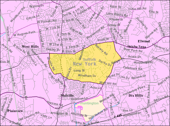 U.S. Census 2000 reference map for South Huntington